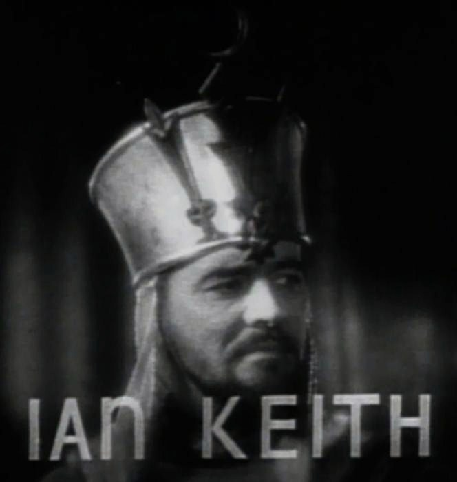 Ian Keith in The Crusades - trailer (cropped screenshot)